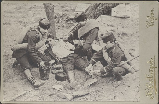 Photo of amputation of the left hand of Bulgarian politician Dimitar Petkov, Shipka.